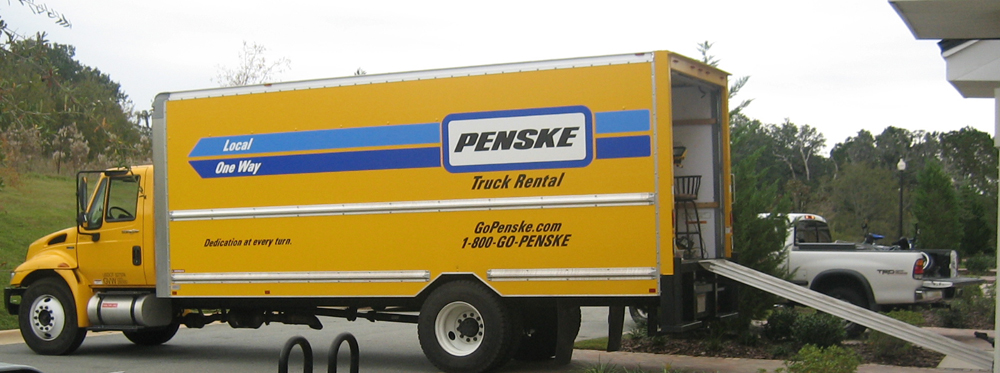 22 foot Penske truck, ramp down and loading up.